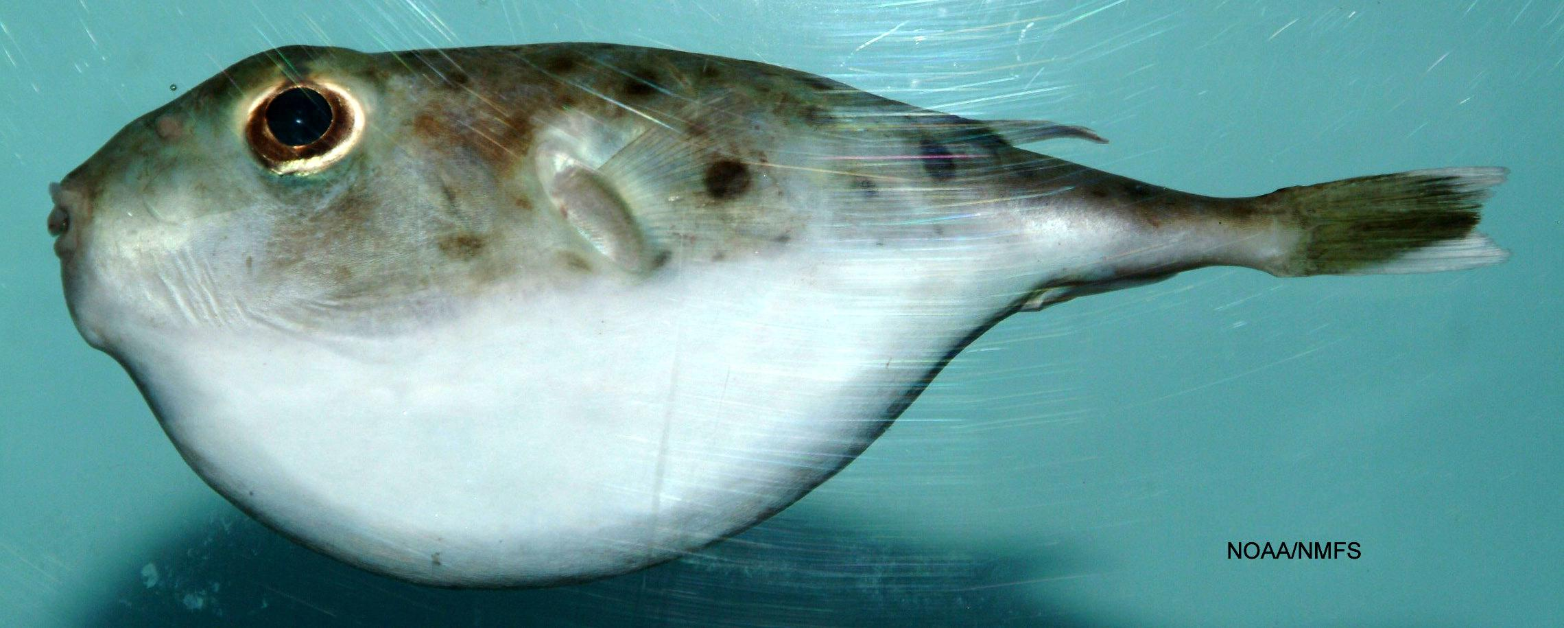 Blunthead puffer ( Sphoeroides pachygaster ). Gulf of Mexico.